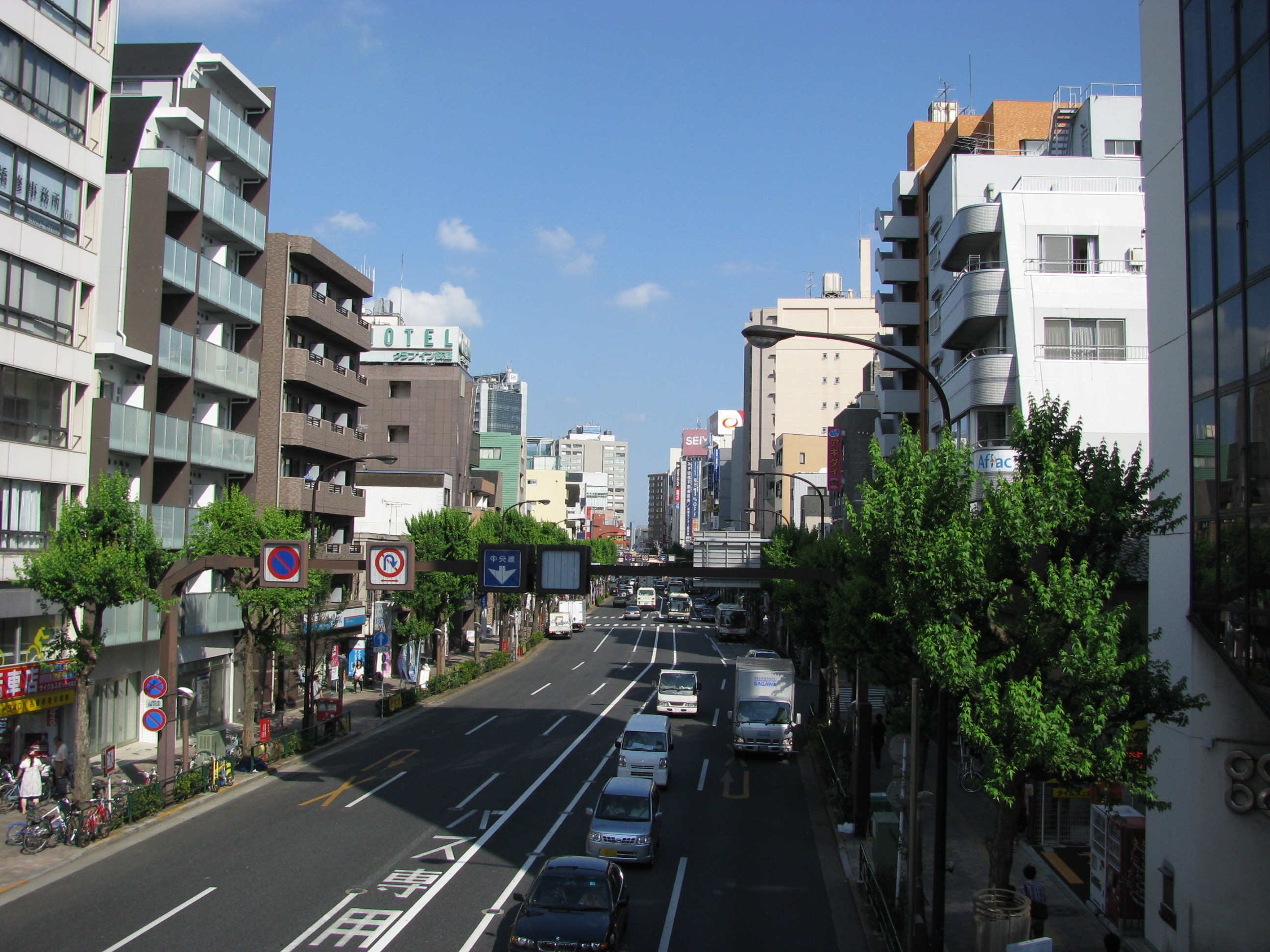 The Tokyo Prefectural Route 4. This location is Kamiogi in Suginami, Tokyo, Japan.